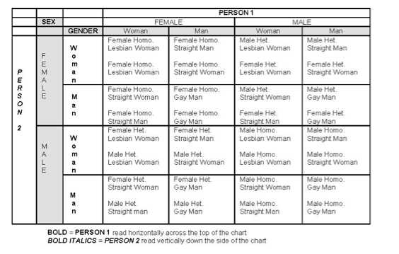 This is an image showing the relationships between the different classifications of gendered sexuality.